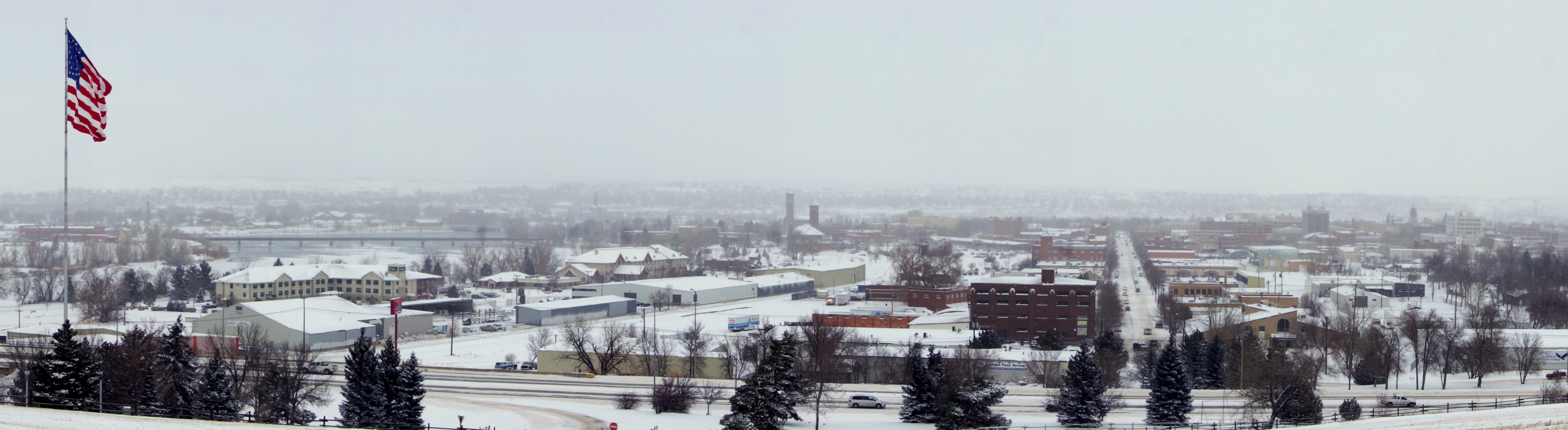 Great Falls, Montana. The Missouri river and Flag Hill are pictured leftmost with the downtown area to the right.